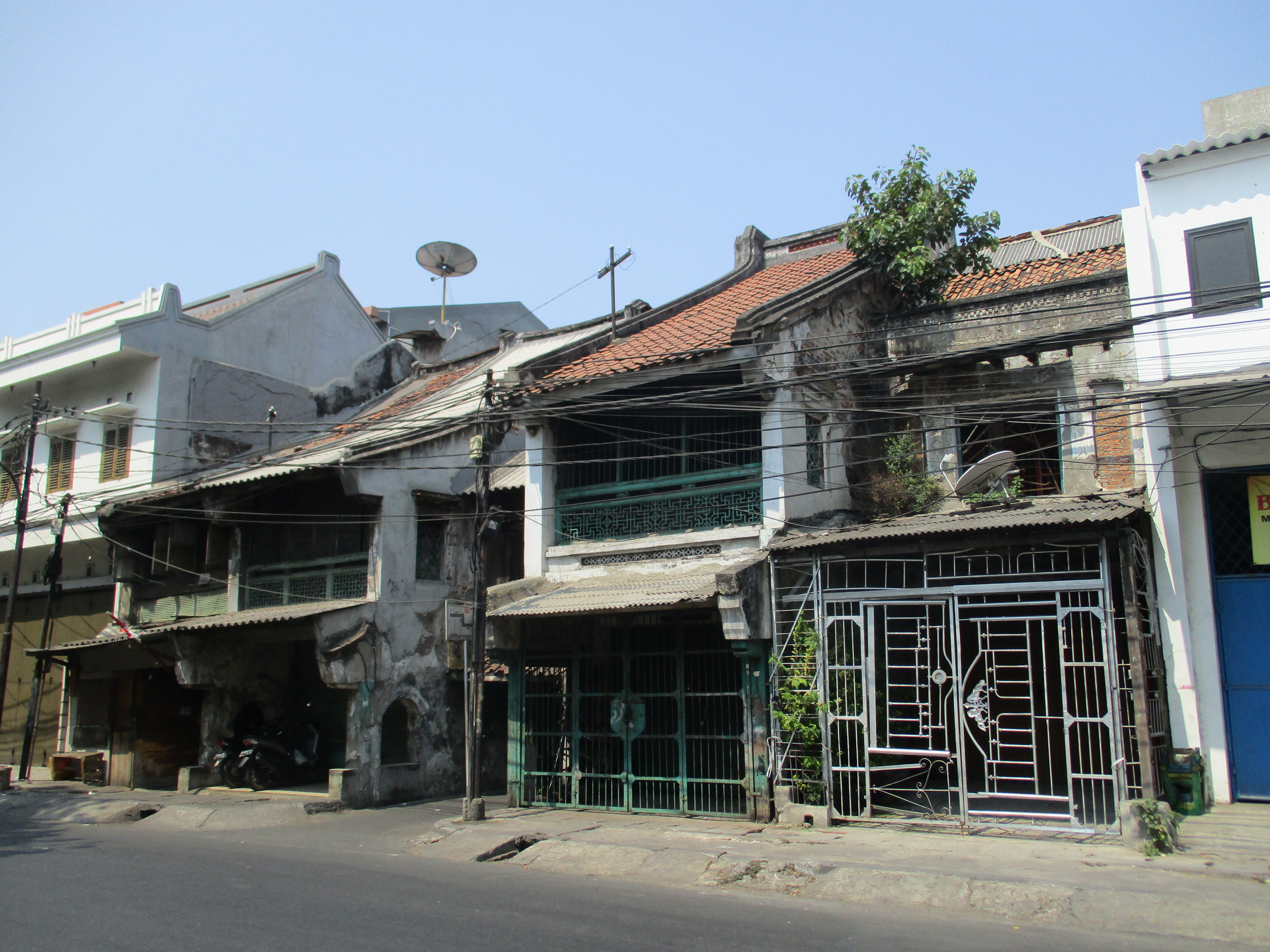 Shophouses in Jl Perniagaan Barat